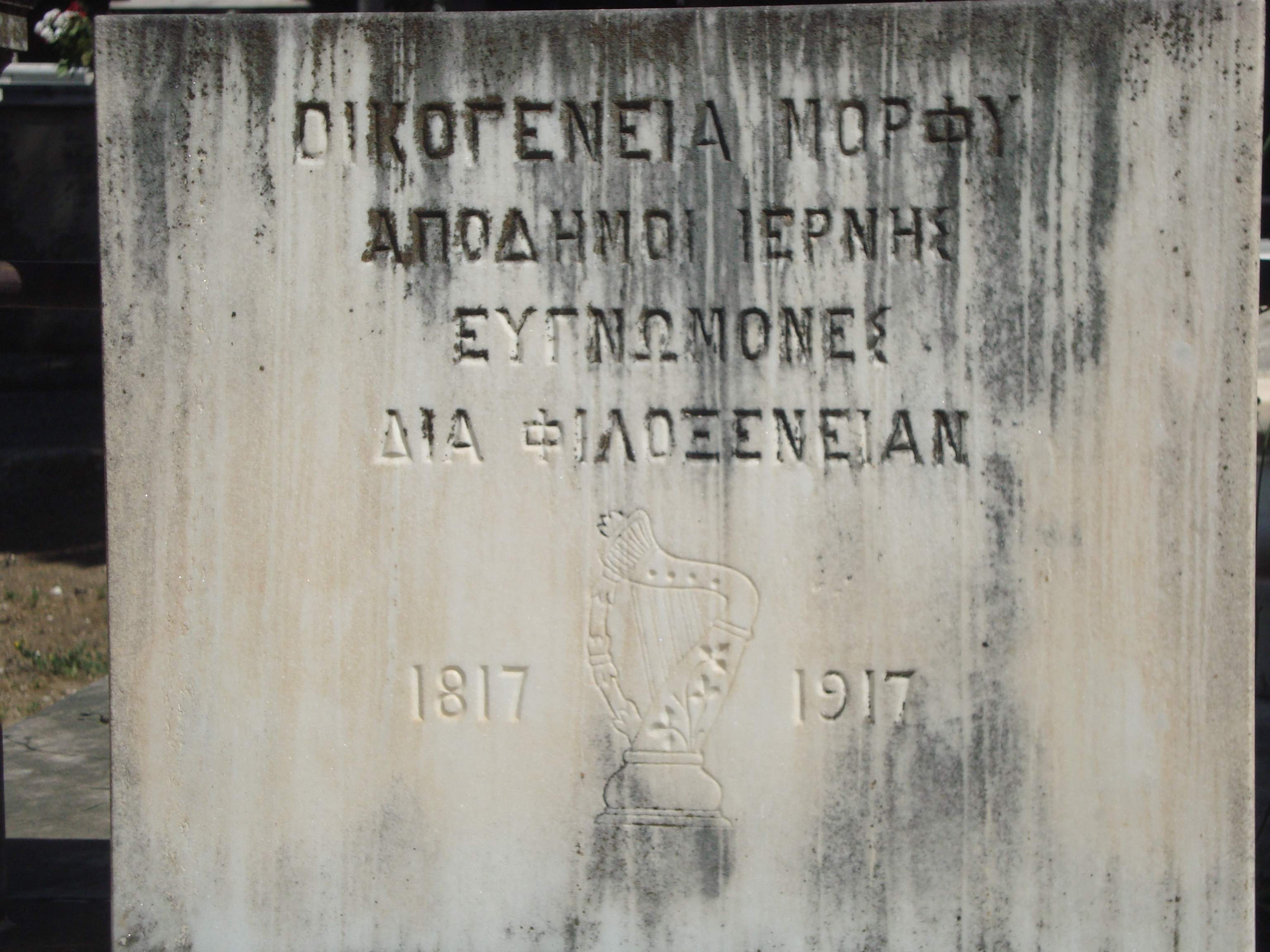 Morphy family cemetery